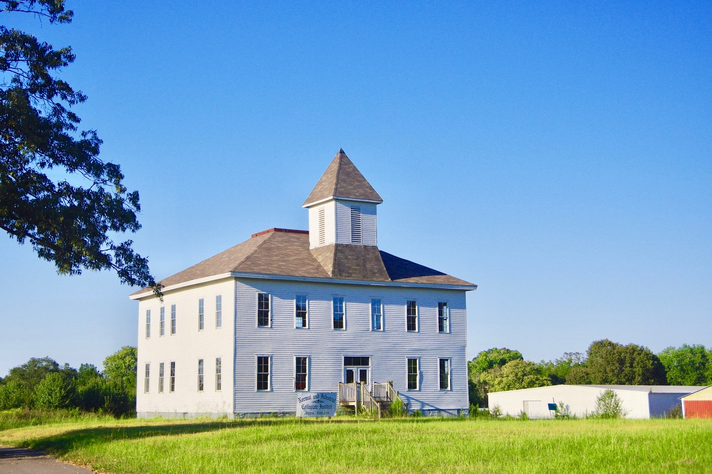 The reconstructed main building of the Joppa Collegiate Normal Institute (Normal and Industrial Collegiate Institute) in Joppa, Alabama, United States.